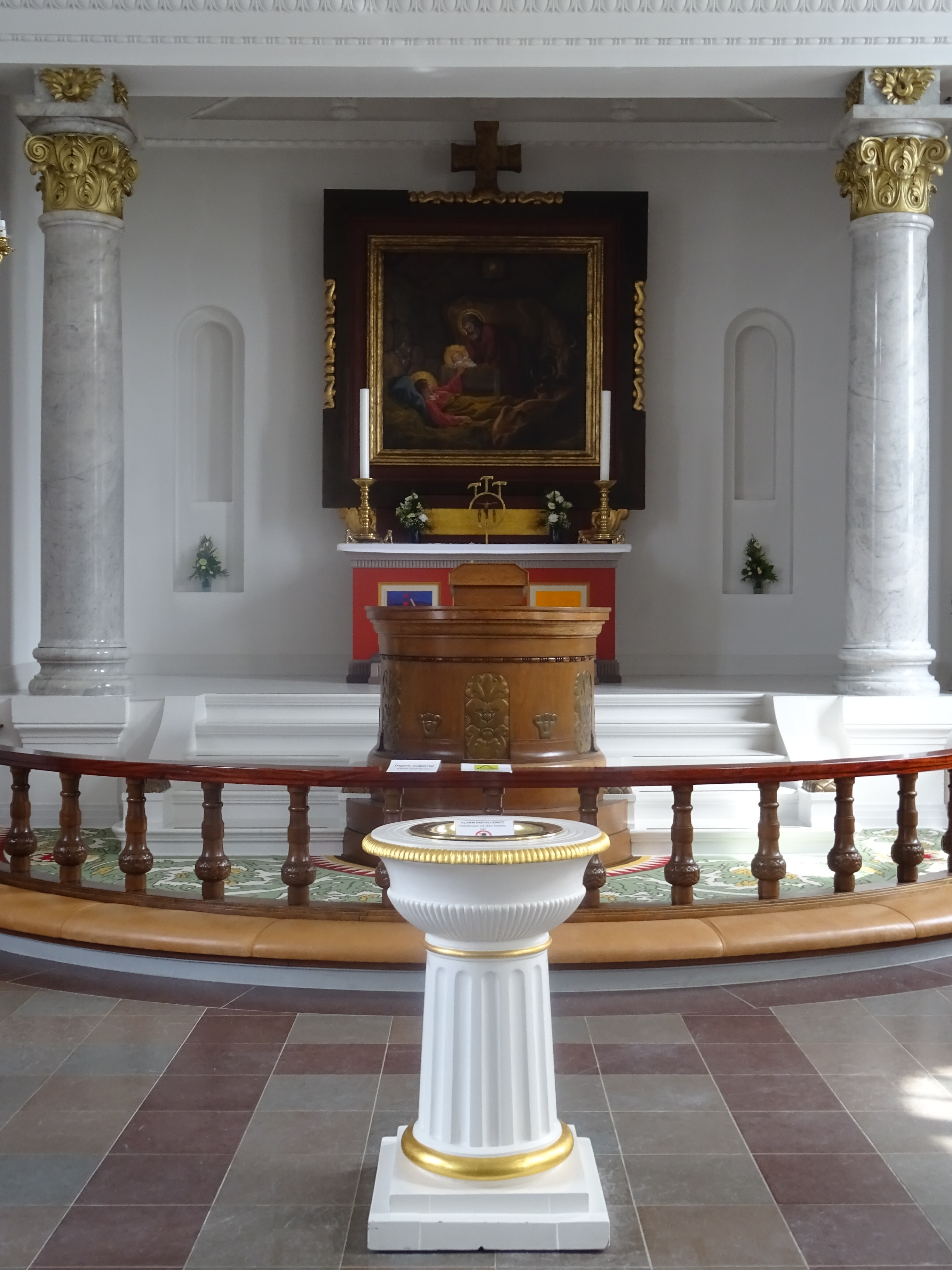 Altar, pulpit and baptismal font in the Church of Skagen, Northern Denmark